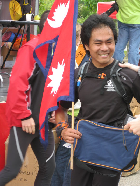 finisher to TRAIL DES FORTS